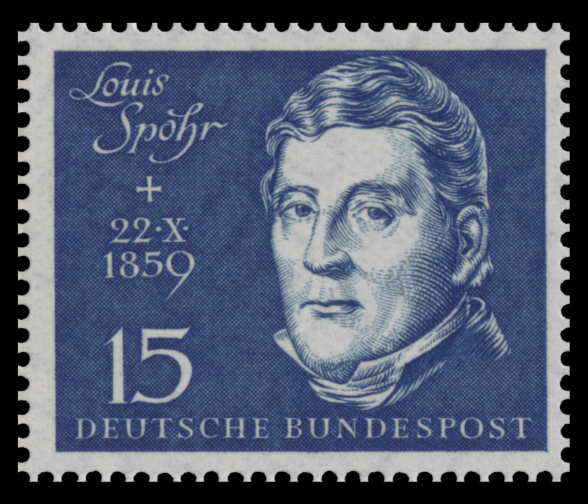 Induction of the Beethoven Hall in Bonn Graphics by Kern Ausgabepreis: 15 Pfennig First Day of Issue / Erstausgabetag: 8. September 1959 Michel-Katalog-Nr: 316